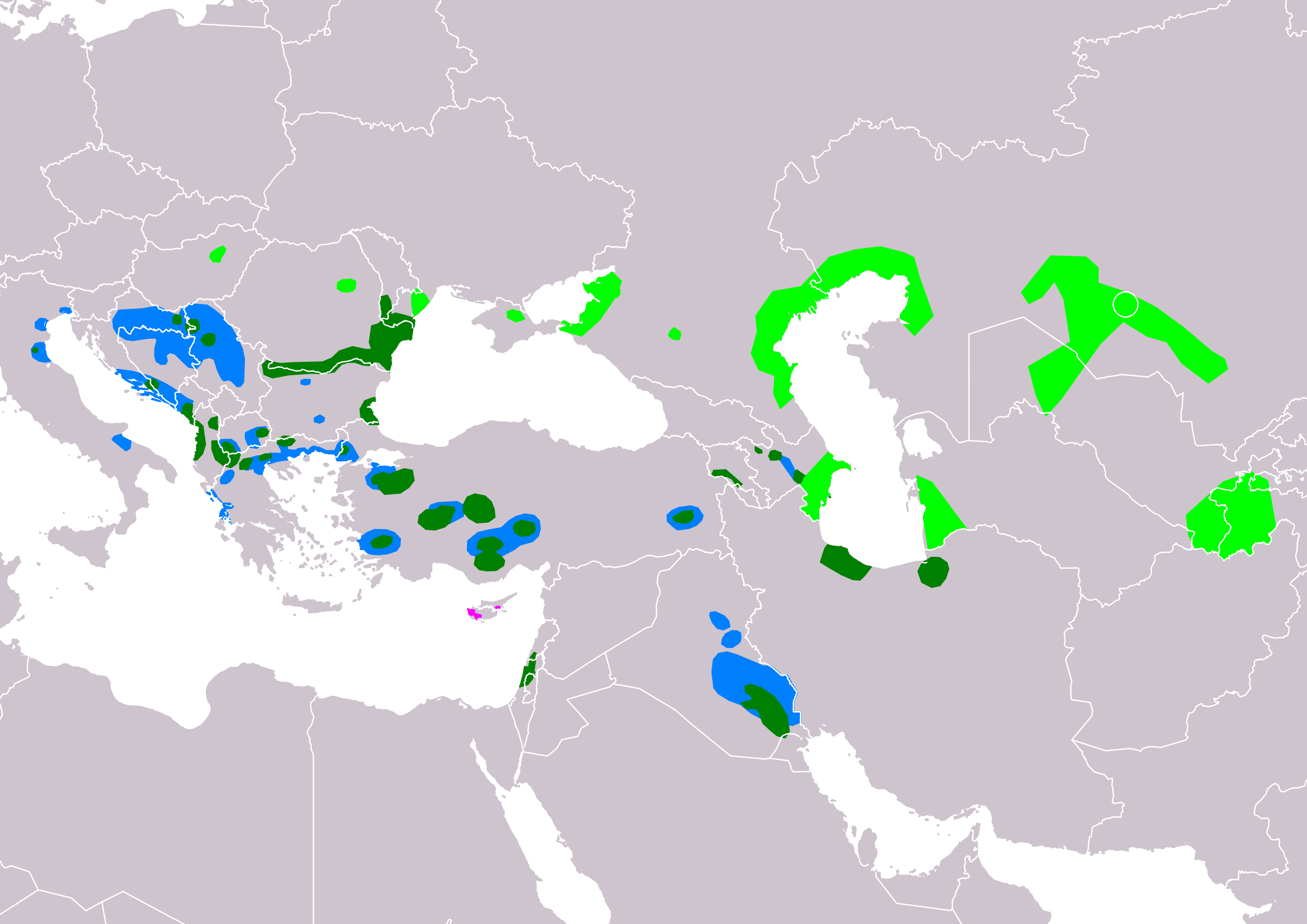 distribution map of pygmy cormorant (Microcarbo pygmaeus) according to IUCN version 2018.2 , Legend: Extant, breeding (#00FF00), Extant, resident (#008000), Extant, non-breeding (#007FFF), Extant & Vagrant (seasonality uncertain) (#FF00FF)